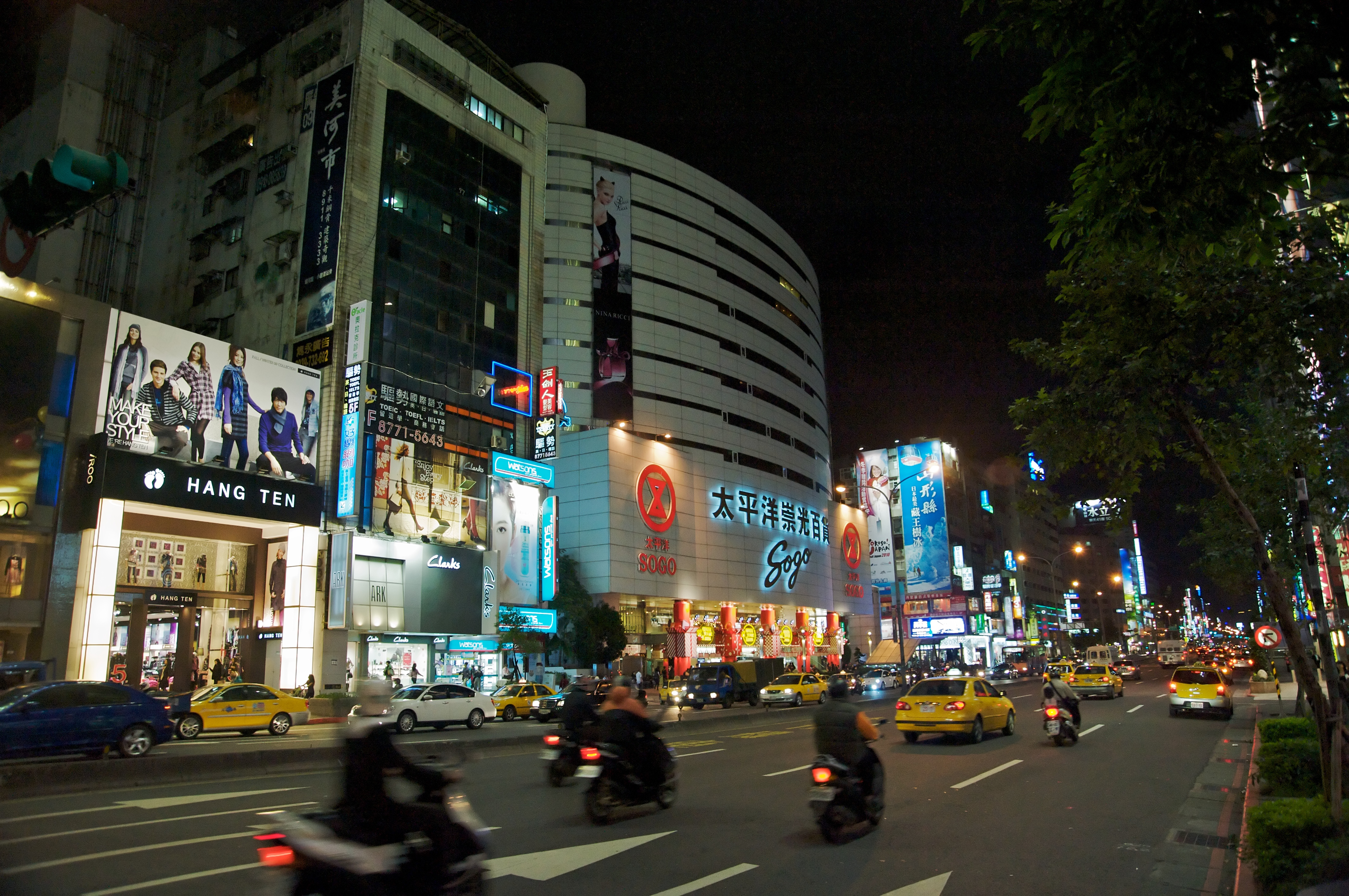 Night in Taipei Zhongxiao Store, Pacific Sogo Department Store.